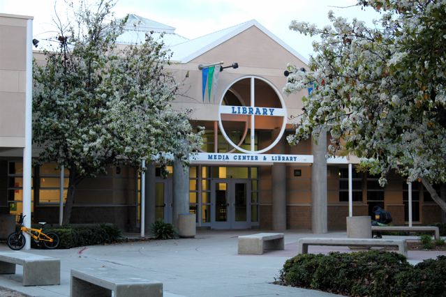 Eastlake High School Library, in Chula Vista, San Diego County, California.